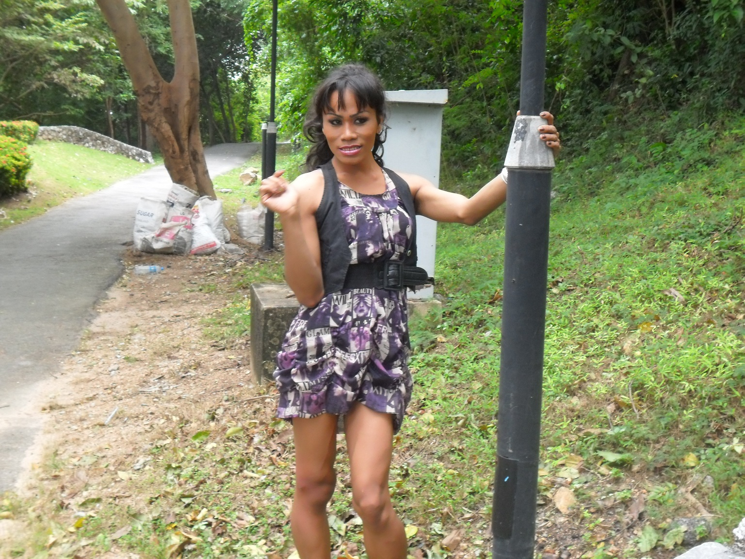 A transvestite in Thailand